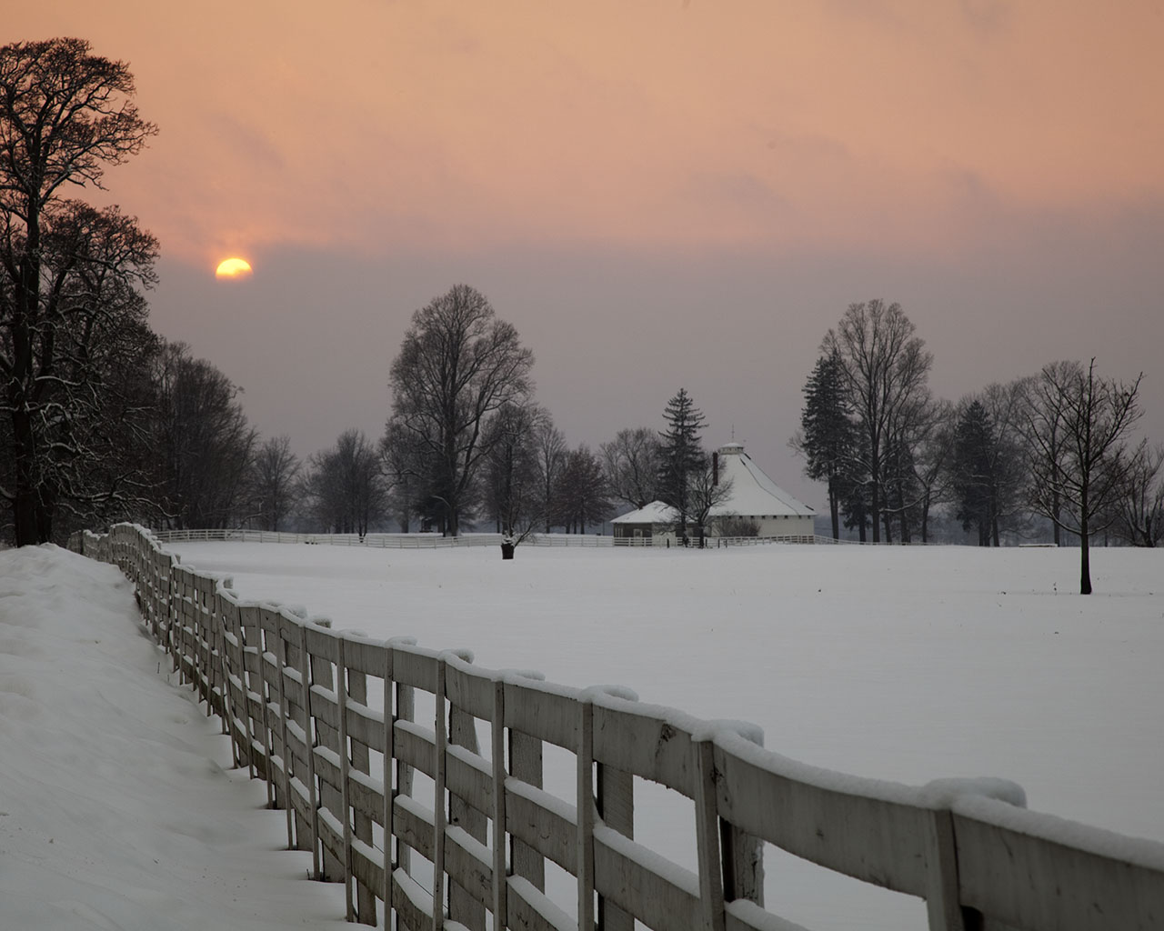 Rancocas ( Helis Stock ) Farm is an American thoroughbred horse racing stud farm and racing stable located on Monmouth Road (County Road 537) in Springfield Township, Burlington County, New Jersey, Jobstown, New Jersey.